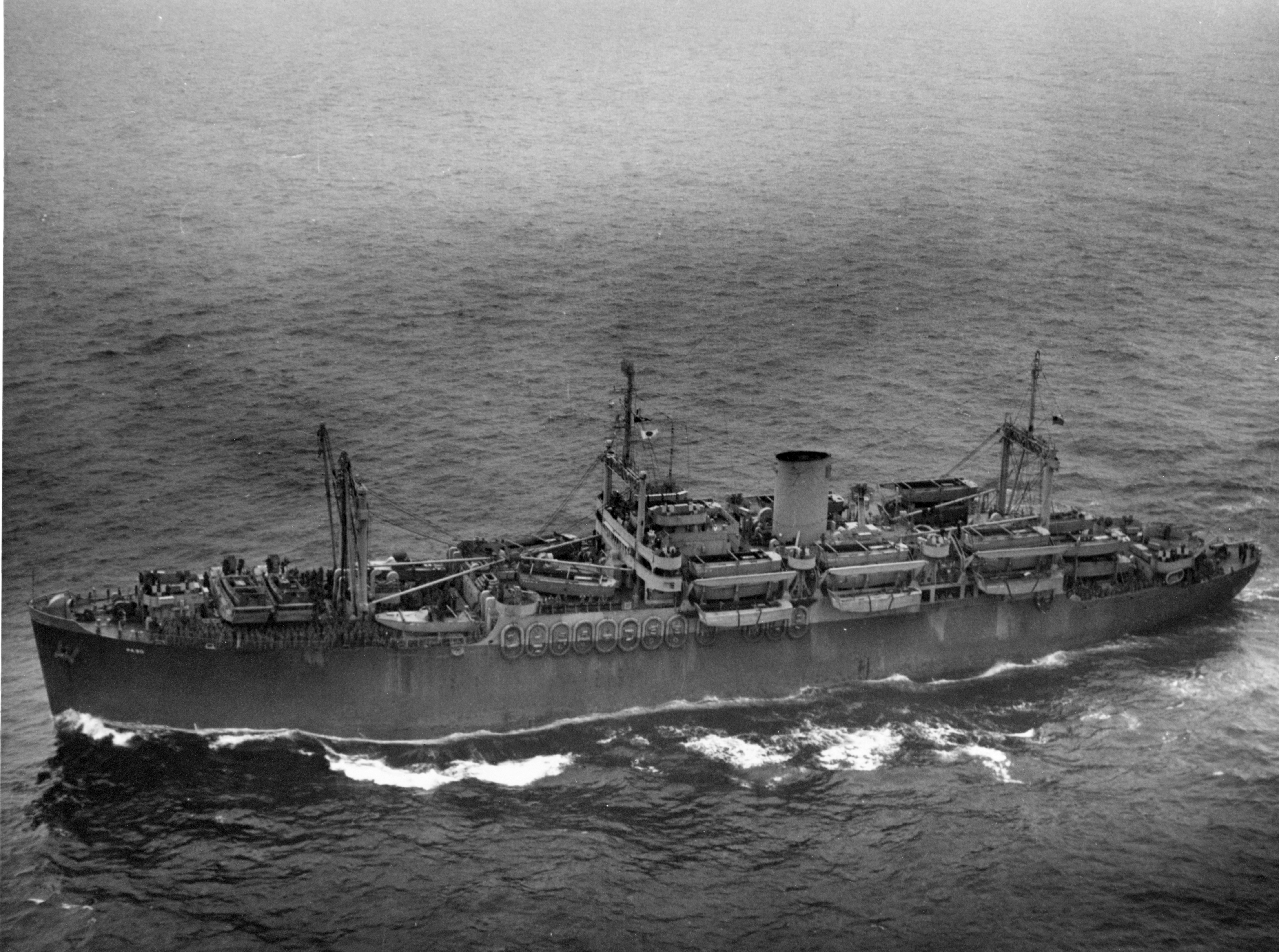 The U.S. Navy attack transport USS James O'Hara (APA-90) underway in the Atlantic Ocean on 8 June 1943, photographed from a blimp of squadron ZP-14, based at Naval Air Station Weeksville, North Carolina (USA).